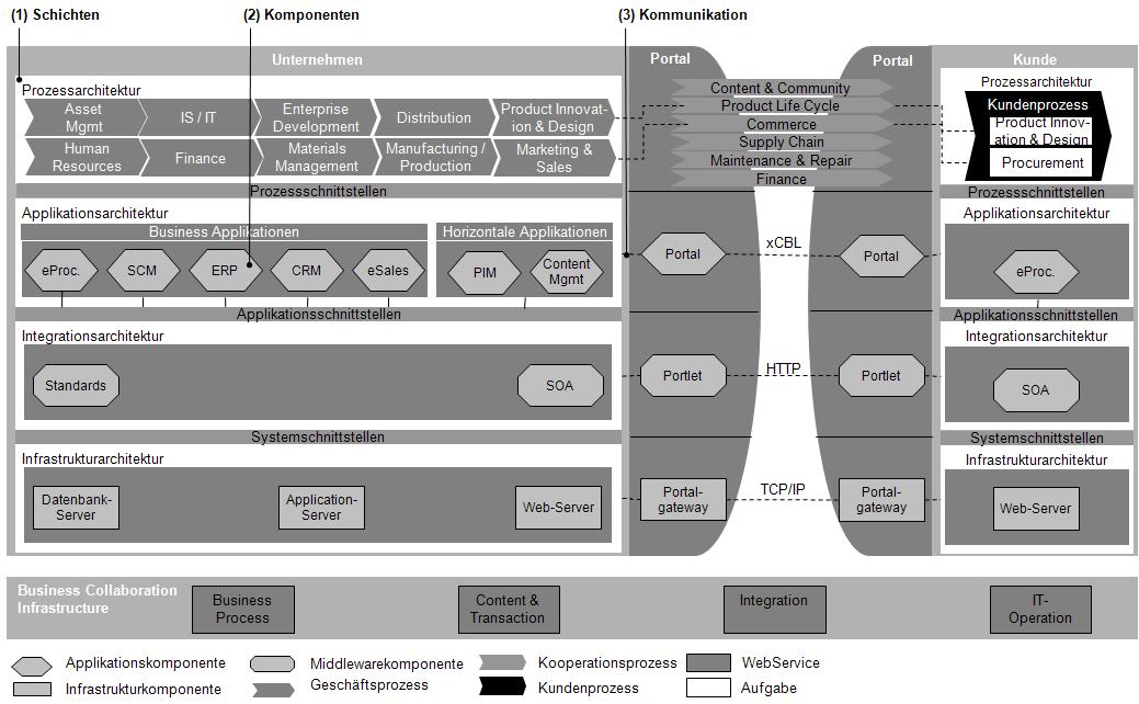 Architecture of Process Portal